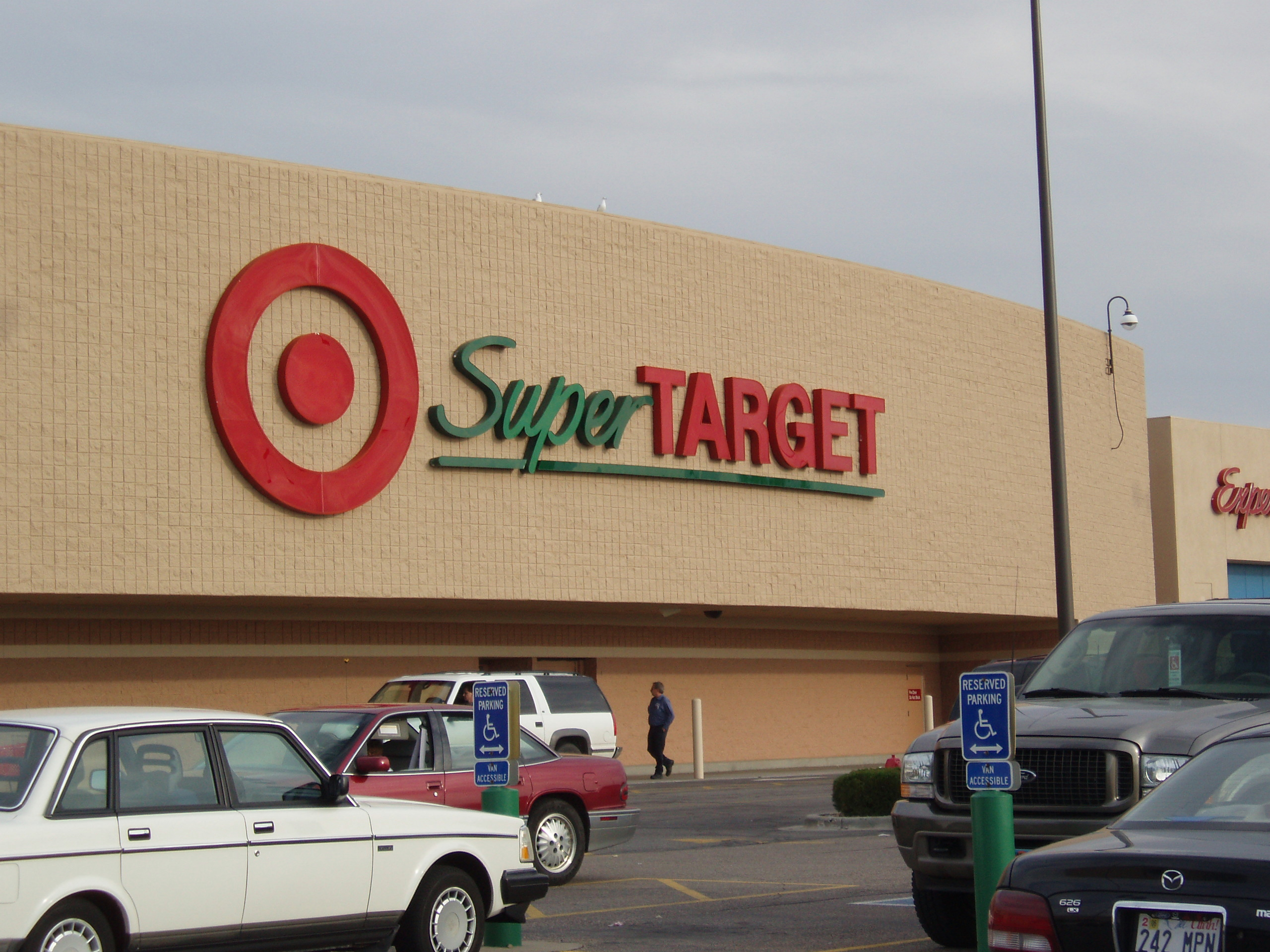 SuperTarget in Omaha, NE